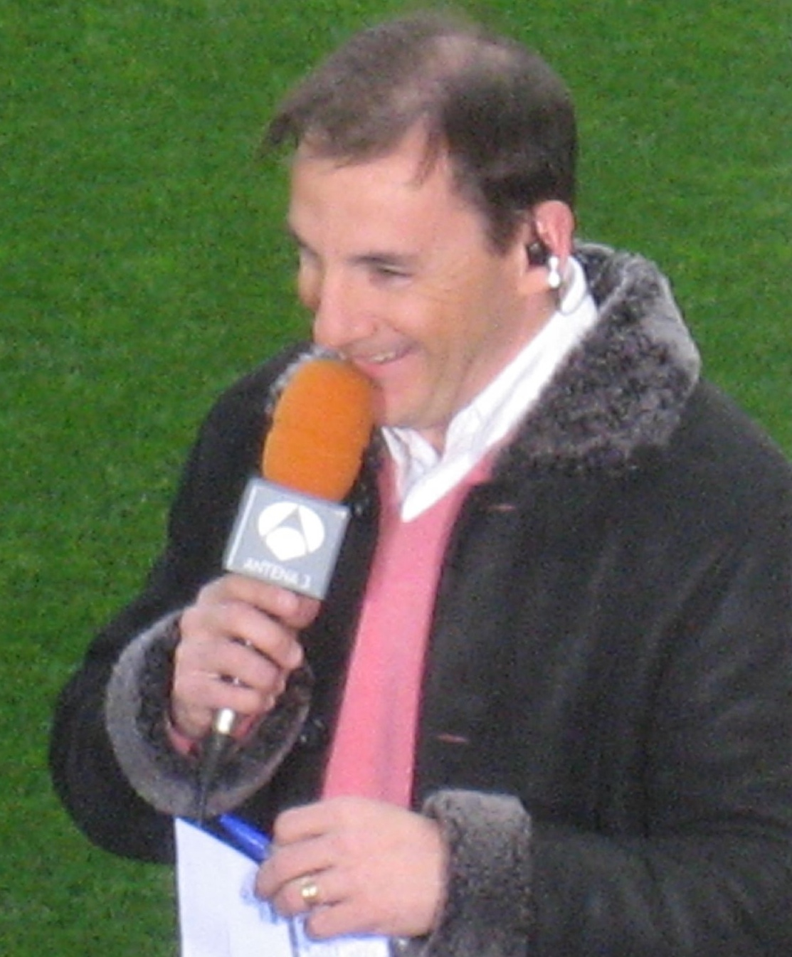 Albert Ferrer i Llopis, former Spanish soccer player.